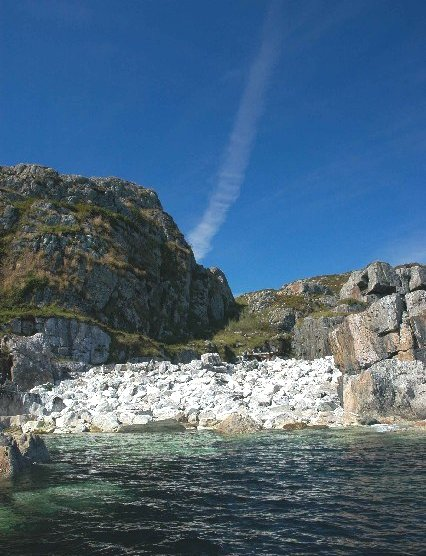 Seaward view of the Iona marble quarry, last worked in 1913, some of the machinery is visible in the photograph.